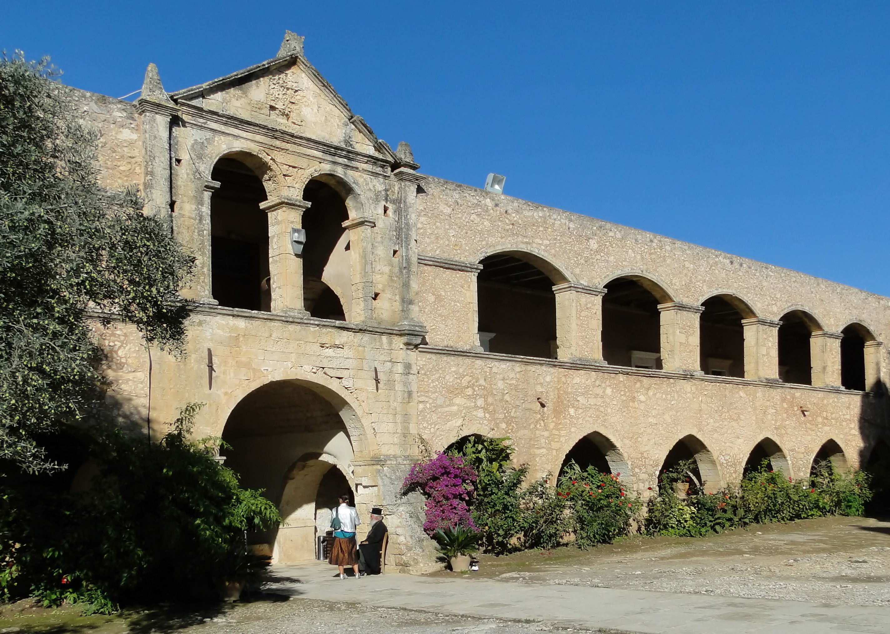 Western door of the Arkadi Monastery viewed from the interior, Crete, Greece